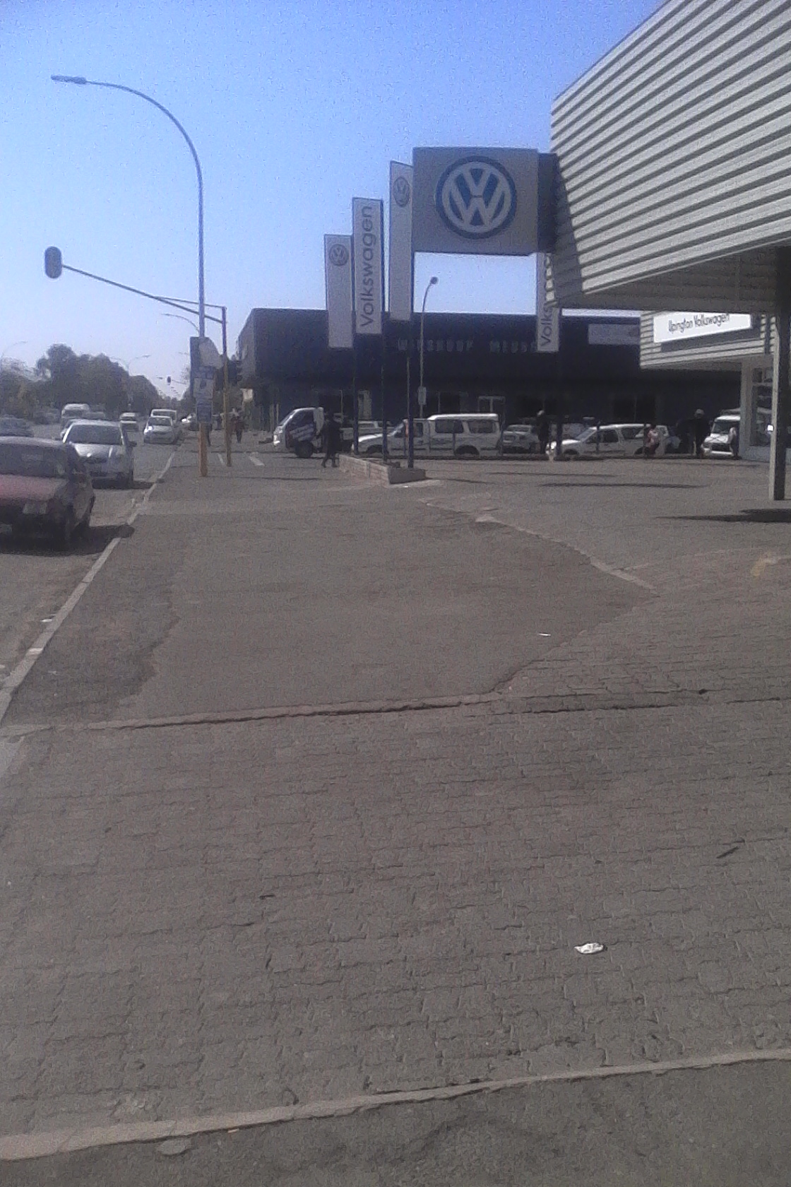 Nelson Mandela drive